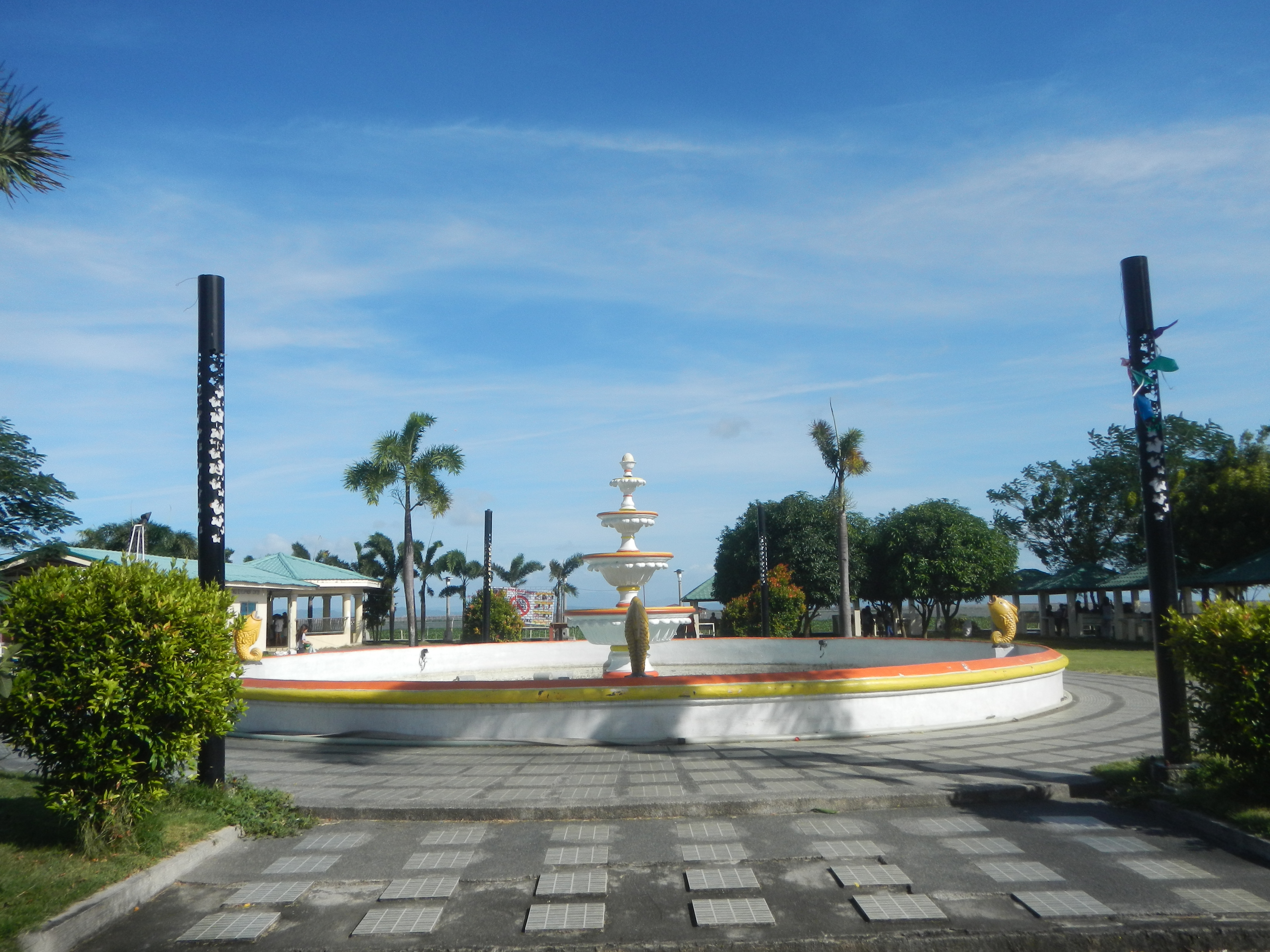 Laguna de Bay Sucat People' Park, Muntinlupa City - Laguna de Bay JRF Sucat Covered Court, Muntinlupa City in or from and to Dr. A. Santos Avenue formerly called (and still known locally as) Sucat Road Barangay Sucat 14°27'19"N 121°2'51"E City of Muntinlupa (Note: Judge Florentino Floro, the owner, to repeat, Donor Florentino Floro of all these photos hereby donate gratuitously, freely and unconditionally Judge Floro all these photos to and for Wikimedia Commons, exclusively, for public use of the public domain, and again without any condition whatsoever).